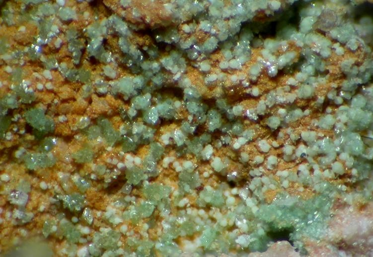 Zinclipscombite Locality: Silver Coin Mine, Valmy, Iron Point District, Humboldt Co., Nevada, USA Pale green balls and crystal clusters of Zinclipscombite. Field of view 2,5 mm. Analysed specimen from the co-author. Specimen and photo Leon Hupperichs.